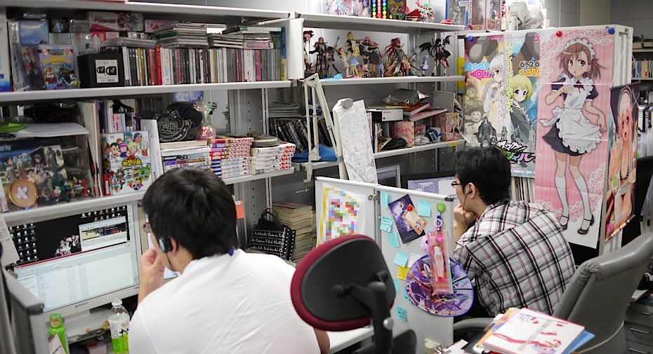 Nitroplus office.